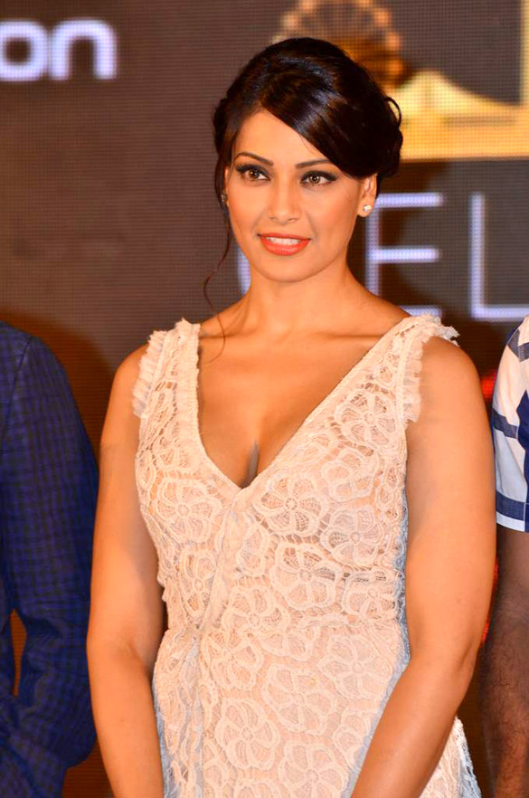 Bipasha iifa singapore press